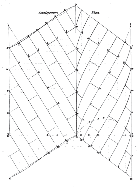 A plate from Peter Nicholson's book The Guide to Railway Masonry, containing a Complete Treatise on the Oblique Arch showing the development of the intrados of a helicoidal skew arch against its plan view